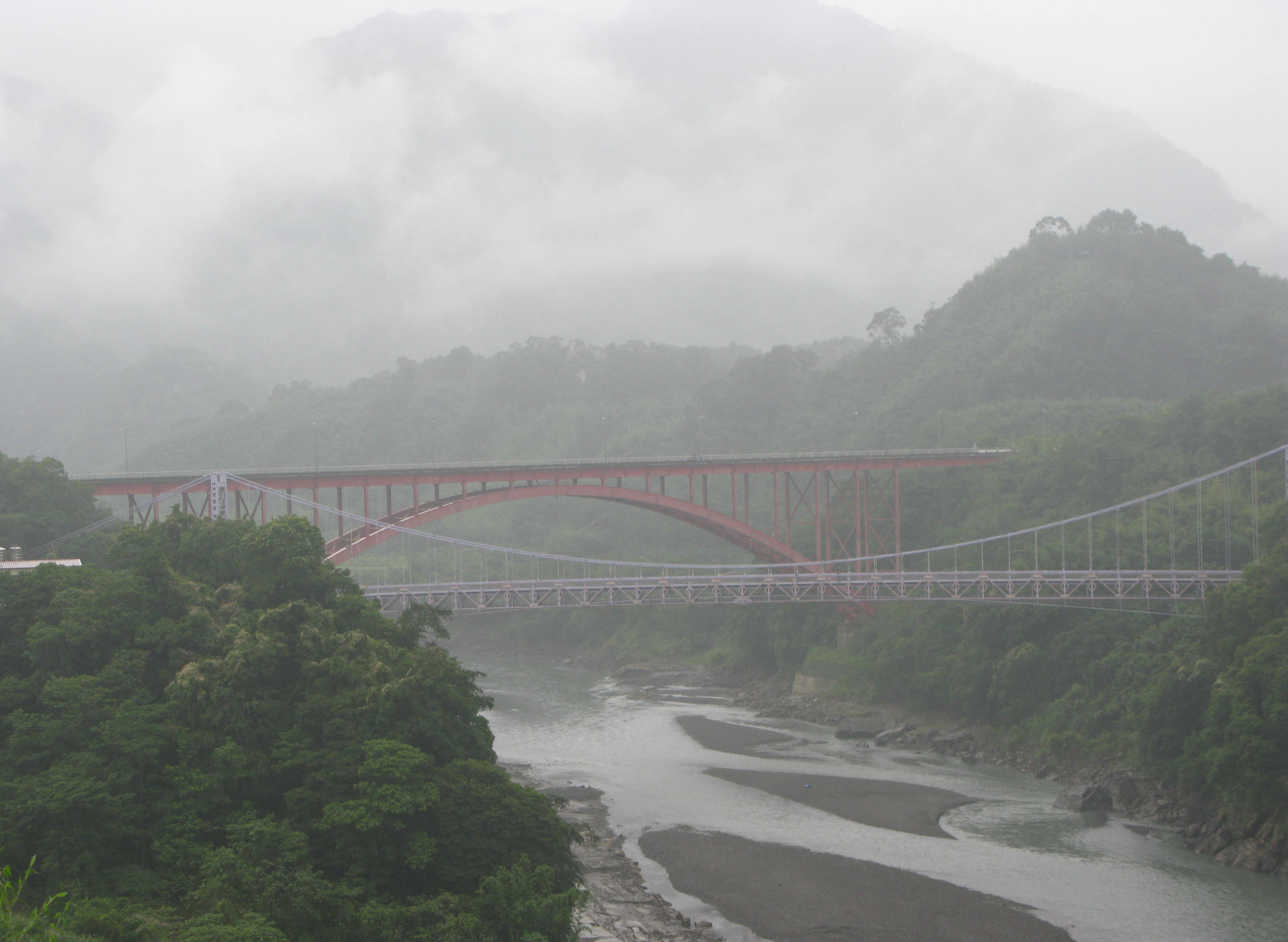 Fushing Township luo-fu bridge,TAIWAN.